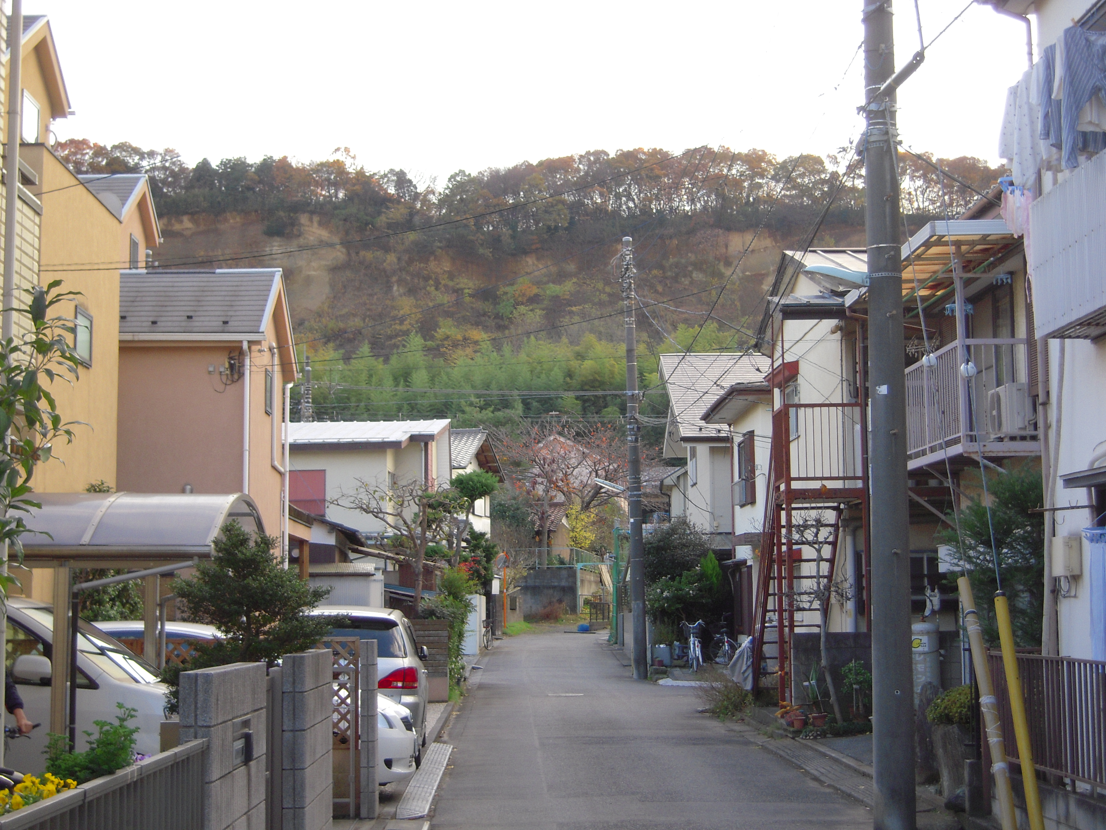 Minamiyama (Inagi, Tokyo)